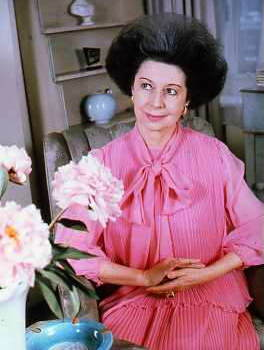 Portrait of Dame Alicia Markova at home, London.